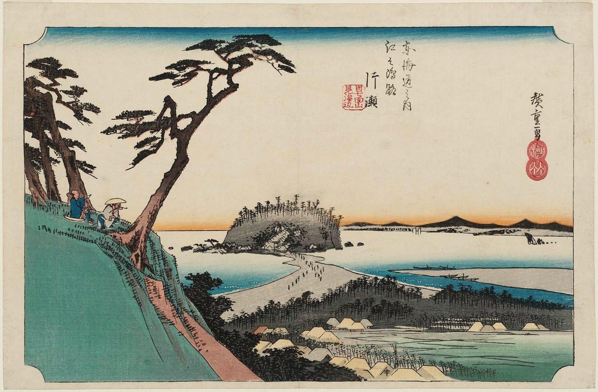 intermediate Station (between no. 07 and no. 08) Katase (片瀬), series title „Tōkaidō - way to Enoshima“ (Tōkaidō no uchi - Enoschima michi (東海道之内 江ノ島路)), subtitle „View of Seashore from Shichimen Mountain“ (Shichimenzan yori umibe o miru (自七面山見海辺)); publisher seal Take (竹) (Hoeidō)